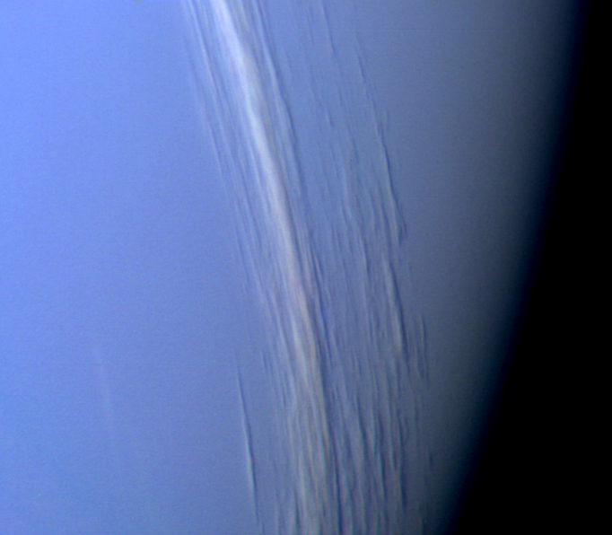 This Voyager 2 high resolution color image, taken 2 hours before closest approach, provides obvious evidence of vertical relief in Neptune's bright cloud streaks. These clouds were observed at a latitude of 29 degrees north near Neptune's east terminator. The linear cloud forms are stretched approximately along lines of constant latitude and the Sun is toward the lower left. The bright sides of the clouds which face the Sun are brighter than the surrounding cloud deck because they are more directly exposed to the sun. Shadows can be seen on the side opposite the sun. These shadows are less distinct at short wavelengths (violet filter) and more distinct at long wavelengths (orange filter). This can be understood if the underlying cloud deck on which the shadow is cast is at a relatively great depth, in which case scattering by molecules in the overlying atmosphere will diffuse light into the shadow. Because molecules scatter blue light much more efficiently than red light, the shadows will be darkest at the longest (reddest) wavelengths, and will appear blue under white light illumination. The resolution of this image is 11 kilometers (6.8 miles per pixel) and the range is only 157,000 kilometers (98,000 miles). The width of the cloud streaks range from 50 to 200 kilometers (31 to 124 miles), and their shadow widths range from 30 to 50 kilometers (18 to 31 miles). Cloud heights appear to be of the order of 50 kilometers (31 miles).